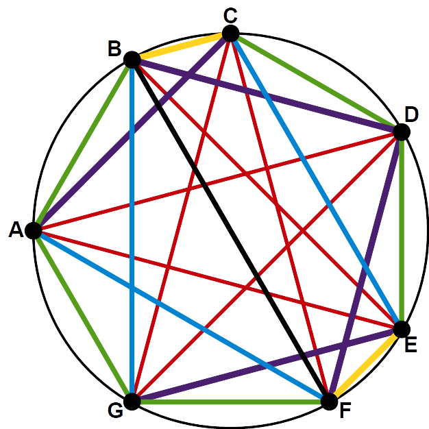 Deep scale property of the diatonic scale. // PCColorOccurrence // 0NA0 // 1yellow2 // 2green5 // 3purple4 // 4blue3 // 5red6 // 6black1